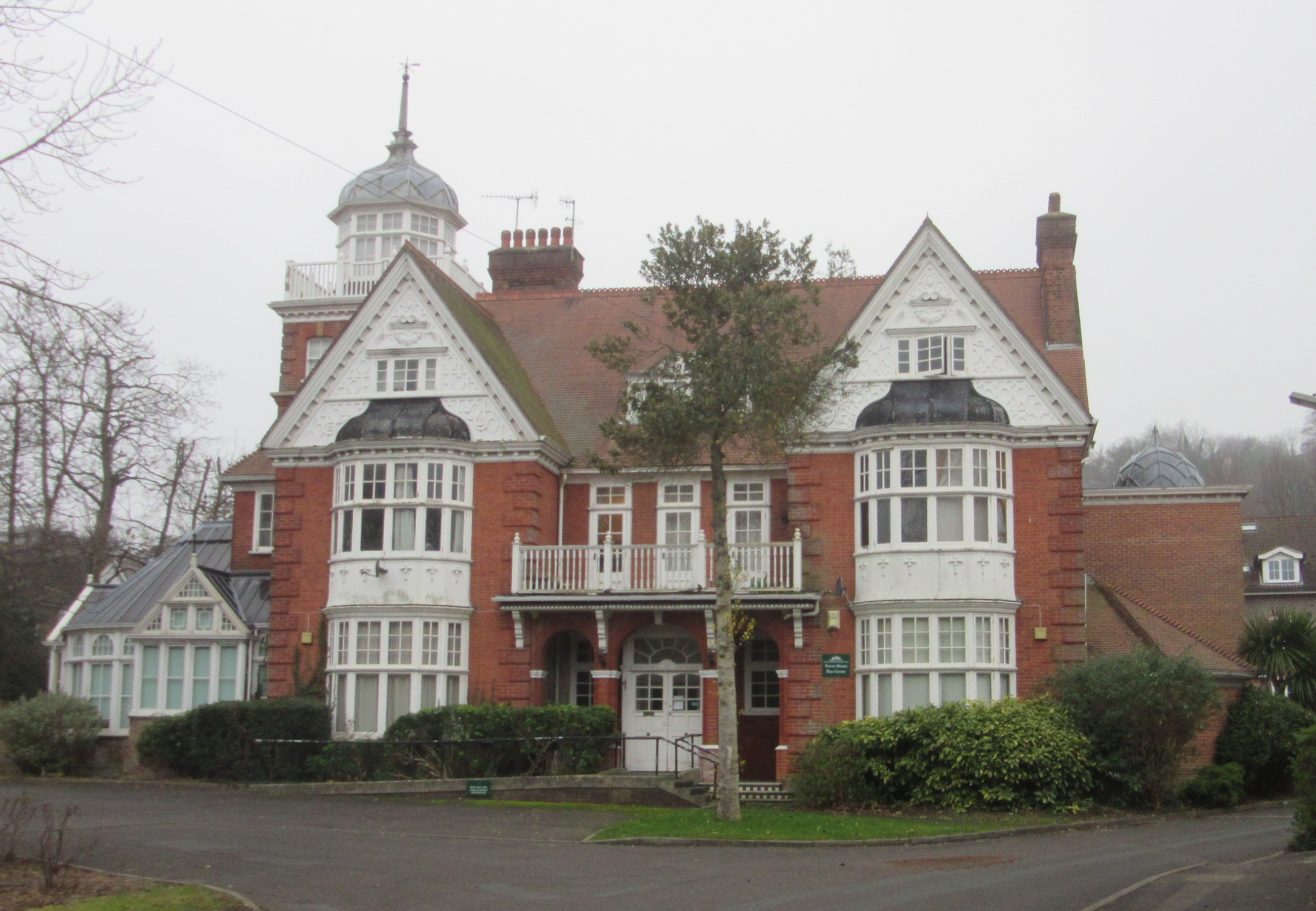 Tower House, 265–267 London Road, Withdean, City of Brighton and Hove, England. Built as a large Edwardian private house in 1902; in 1988 it was refurbished and converted into flats and a day centre (operated by Brighton & Hove City Council).